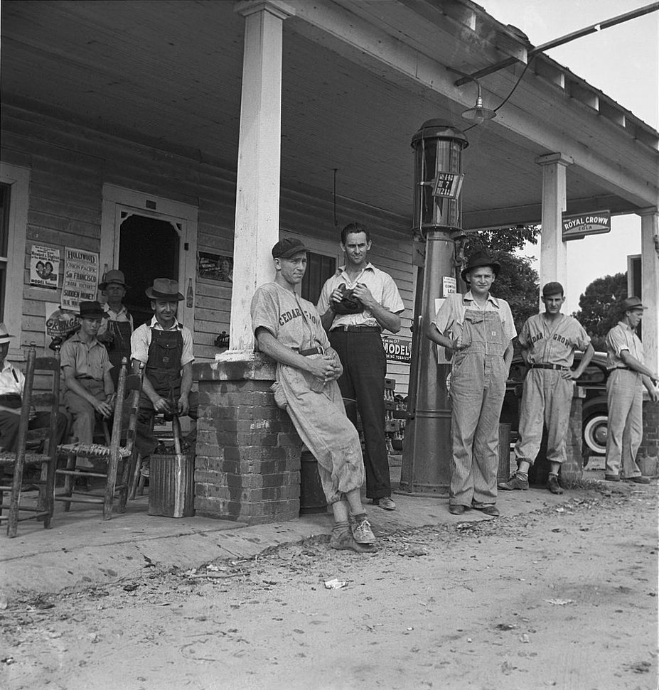 Lange, Dorothea, photographer. Fourth of July, near Chapel Hill, North Carolina. Rural filling stations become community centers and general loafing grounds. The men in the baseball suits are on a local team which will play a game nearby. They are called the Cedargrove Team 1939 July 4. 1 negative : nitrate ; 2 1/4 x 2 1/4 inches or smaller. Notes: Title and other information from caption card. LOT 1497 (Location of corresponding print.) Transfer; United States. Office of War Information. Overseas Picture Division. Washington Division; 1944. Published in: Baseball Americana : treasures from the Library of Congress / Harry Katz, et al. New York : Smithsonian Books, 2009. Subjects: United States--North Carolina--Chapel Hill. Format: Nitrate negatives. Repository: Library of Congress, Prints and Photographs Division, Washington, DC 20540 USA, Part Of: Farm Security Administration - Office of War Information Photograph Collection More information about the FSA/OWI Collection is available at Persistent URL: Call Number: LC-USF34- 020010-E